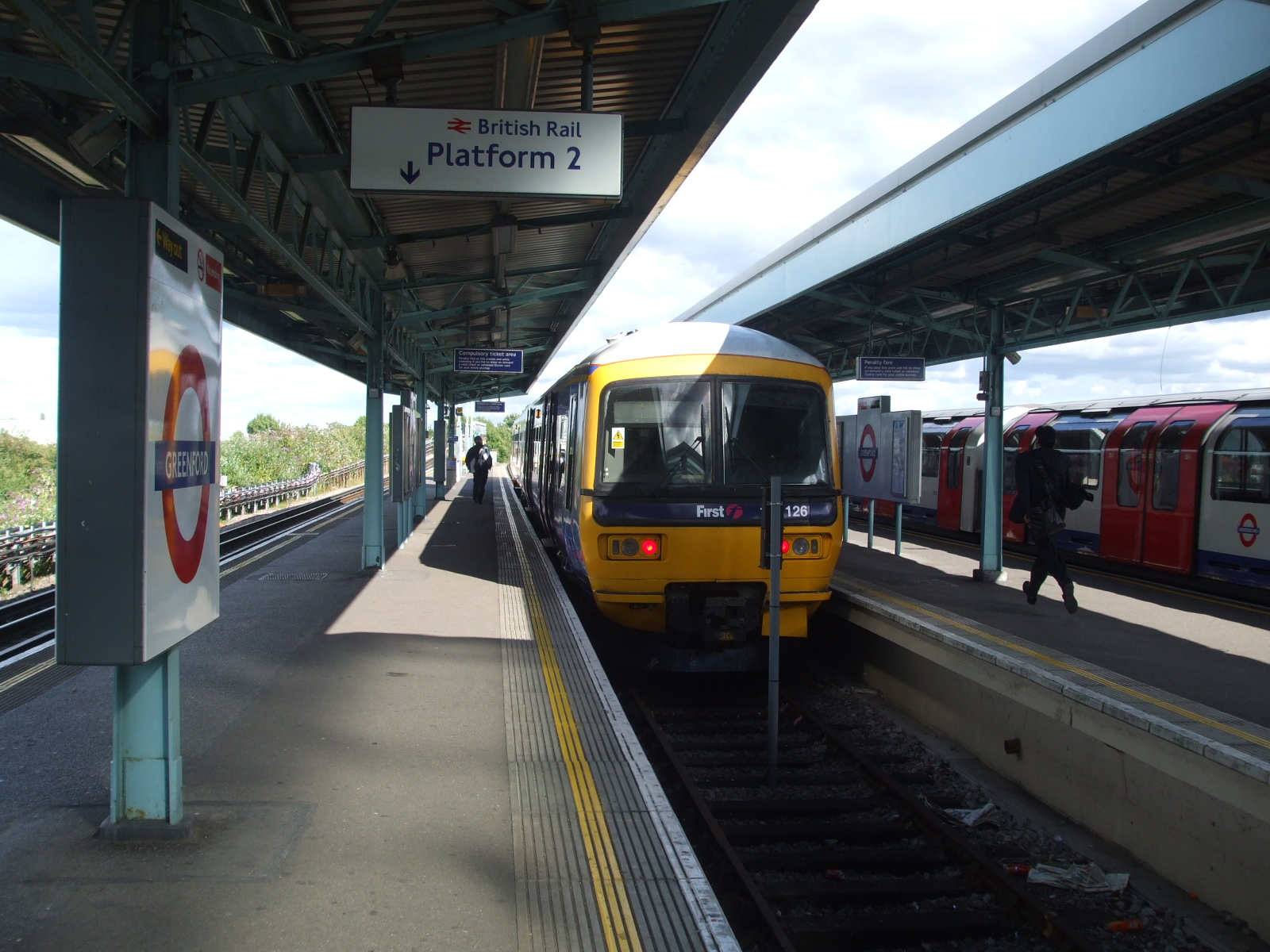 Class 165 DMU unit 165126 awaiting depature from Greenford station with the First Great Western service to London Paddington. The bay platform is flanked by the two London Underground Central line platforms, a unique occurrence on the railway network.